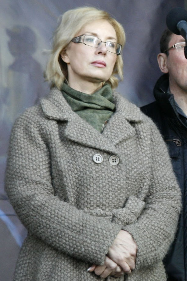 Lyudmyla Denisova, Ukrainian politician, Minister of Social Policy of Ukraine